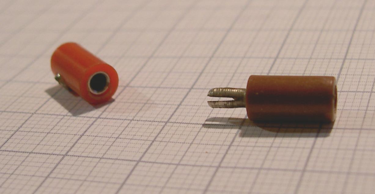 Low-current banana plug and jack with 2.6 mm diameter, e.g. for use with H0 model trains